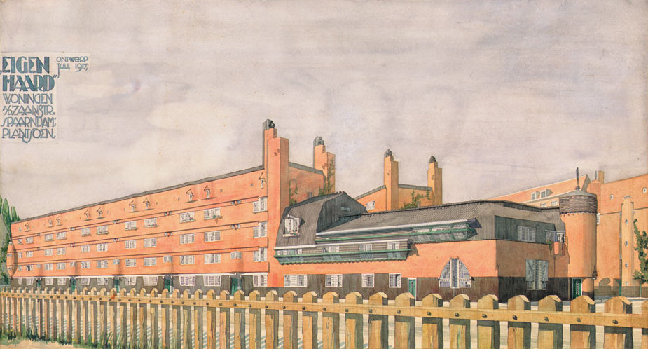 Michel de Klerk. Counsil Estate Zaanstraat/Spaarndammerplantsoen, Amsterdam. 1917.